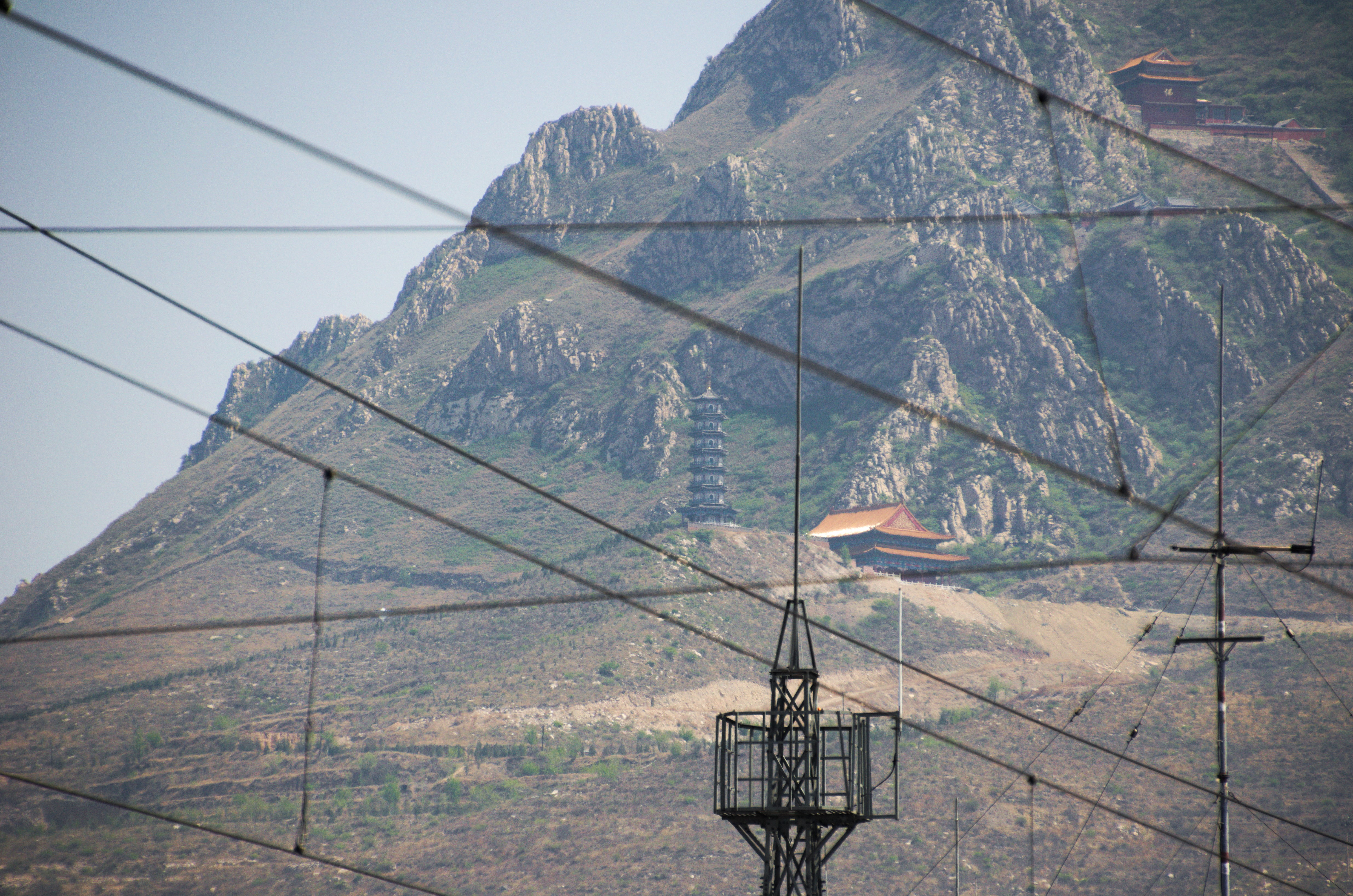 Yongning Temple (永宁寺) and Linji Guangming tower (临济光明塔) on Jiming mount (鸡鸣山) at Xiahuayuan District, Zhangjiakou, Hebei province.